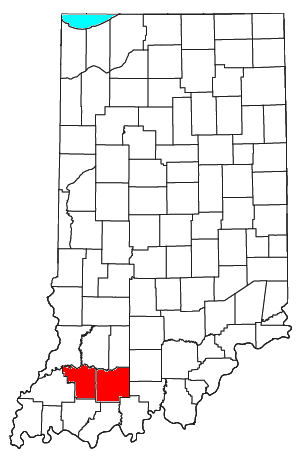 Locator map of the Jasper Micropolitan Statistical Area in the southwestern part of the U.S. state of Indiana.